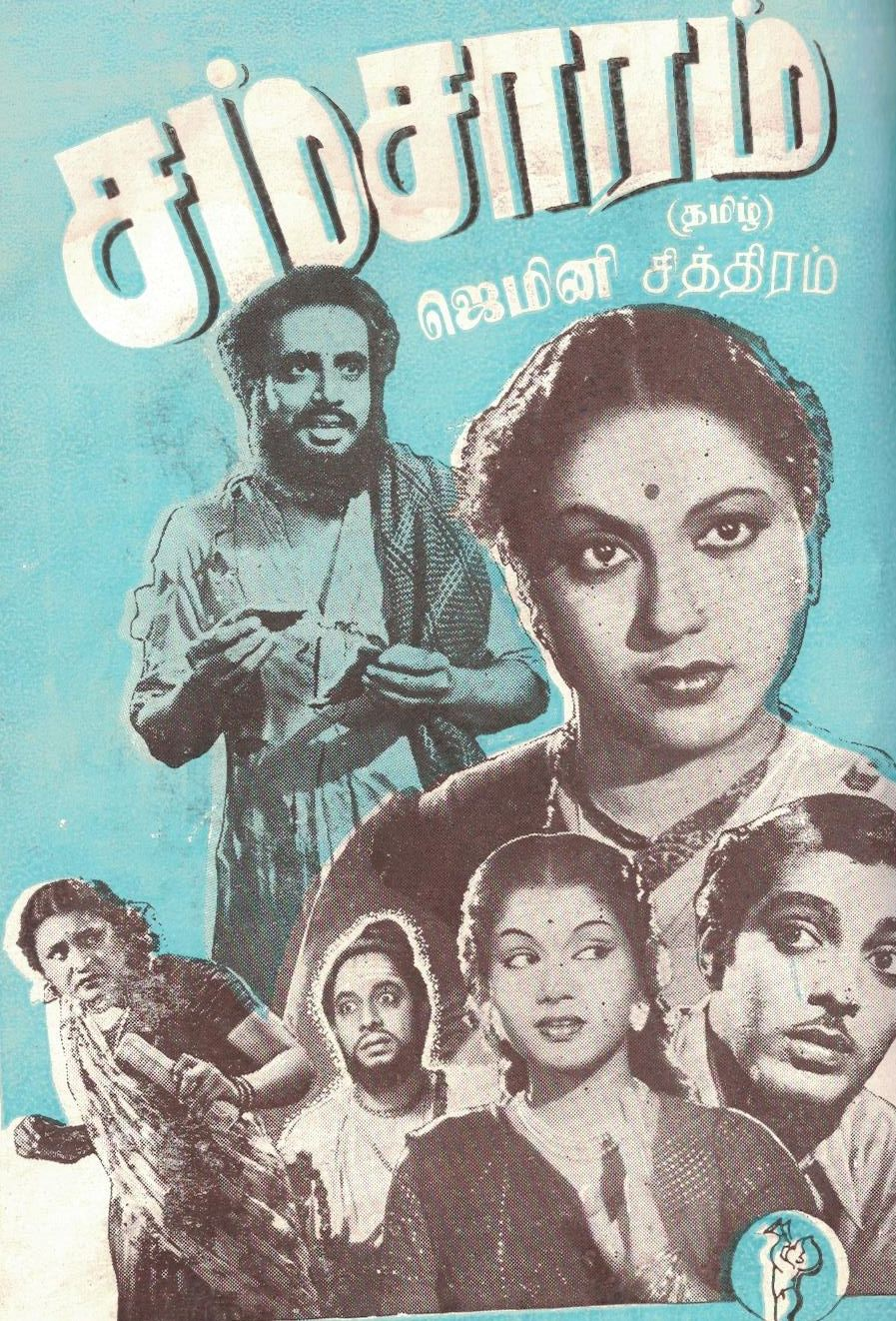 Poster for the 1951 South Indian Tamil film Samsaram